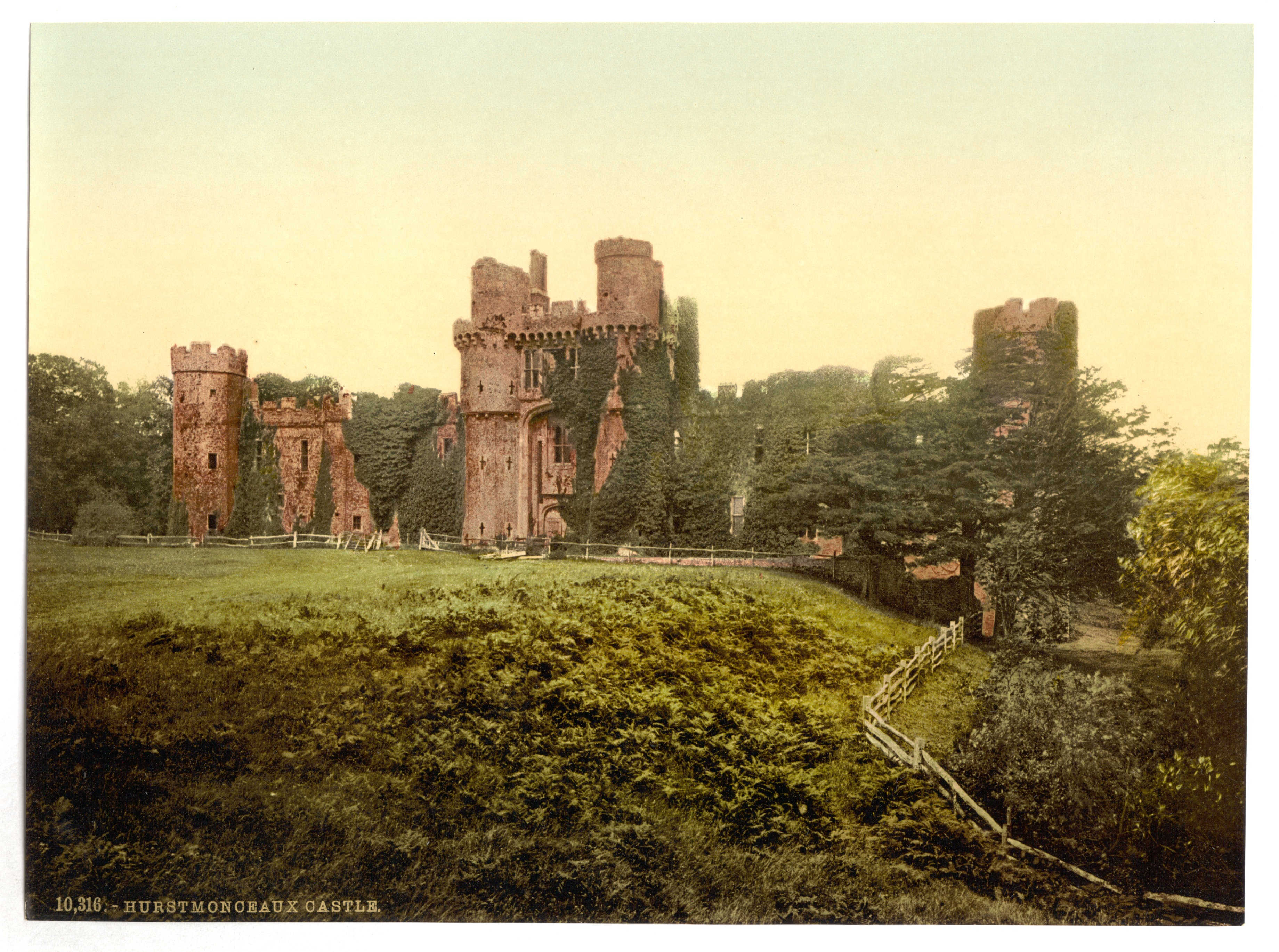 Forms part of: Views of the British Isles, in the Photochrom print collection.; More information about the Photochrom Print Collection is available at Print no. "10316".; Title from the Detroit Publishing Co., Catalogue J-foreign section, Detroit, Mich. : Detroit Publishing Company, 1905.